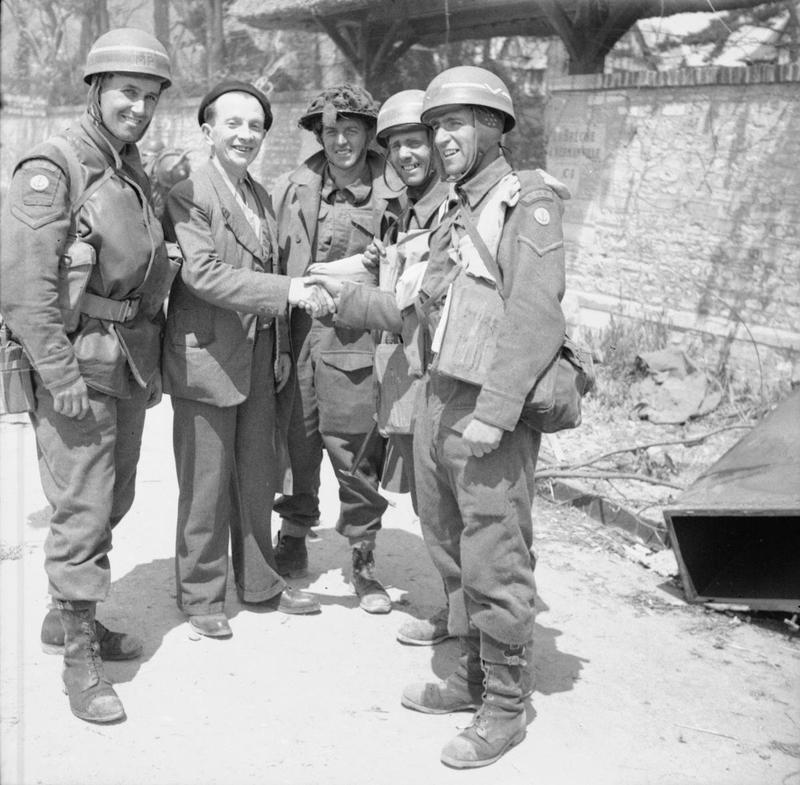 D-day - British Forces during the Invasion of Normandy 6 June 1944 A French civilian greets British troops in La Brèche d'Hermanville, 6 June 1944. The three CMP (Corps of Military Police) despatch riders are from No. 5 or 6 Beach Group (note formation sign of a red anchor on a pale blue background), attached to 3rd Division.